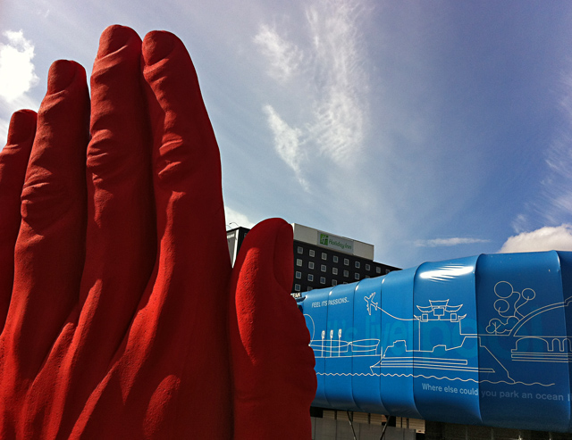 Part of a work by Romanian Bogdan Rata, called The Middle Way, a 3.5 meter high sculpture of a human hand, on the south side of St George's Hall.